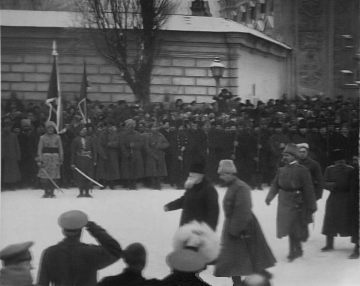 The Head of the Ukrainian Central Rada, Myhailo Grushevskiy, at a military parade in Kyiv in 1917